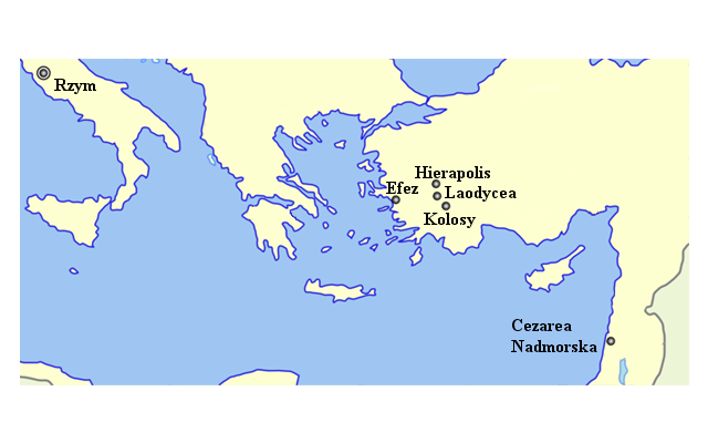 Map of Epistle to Colossians